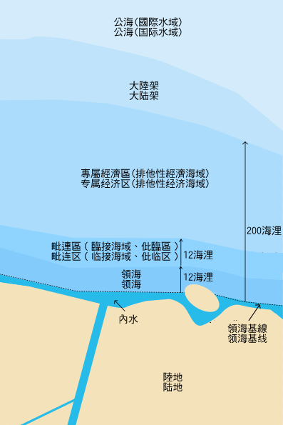 Sea areas in international rights.